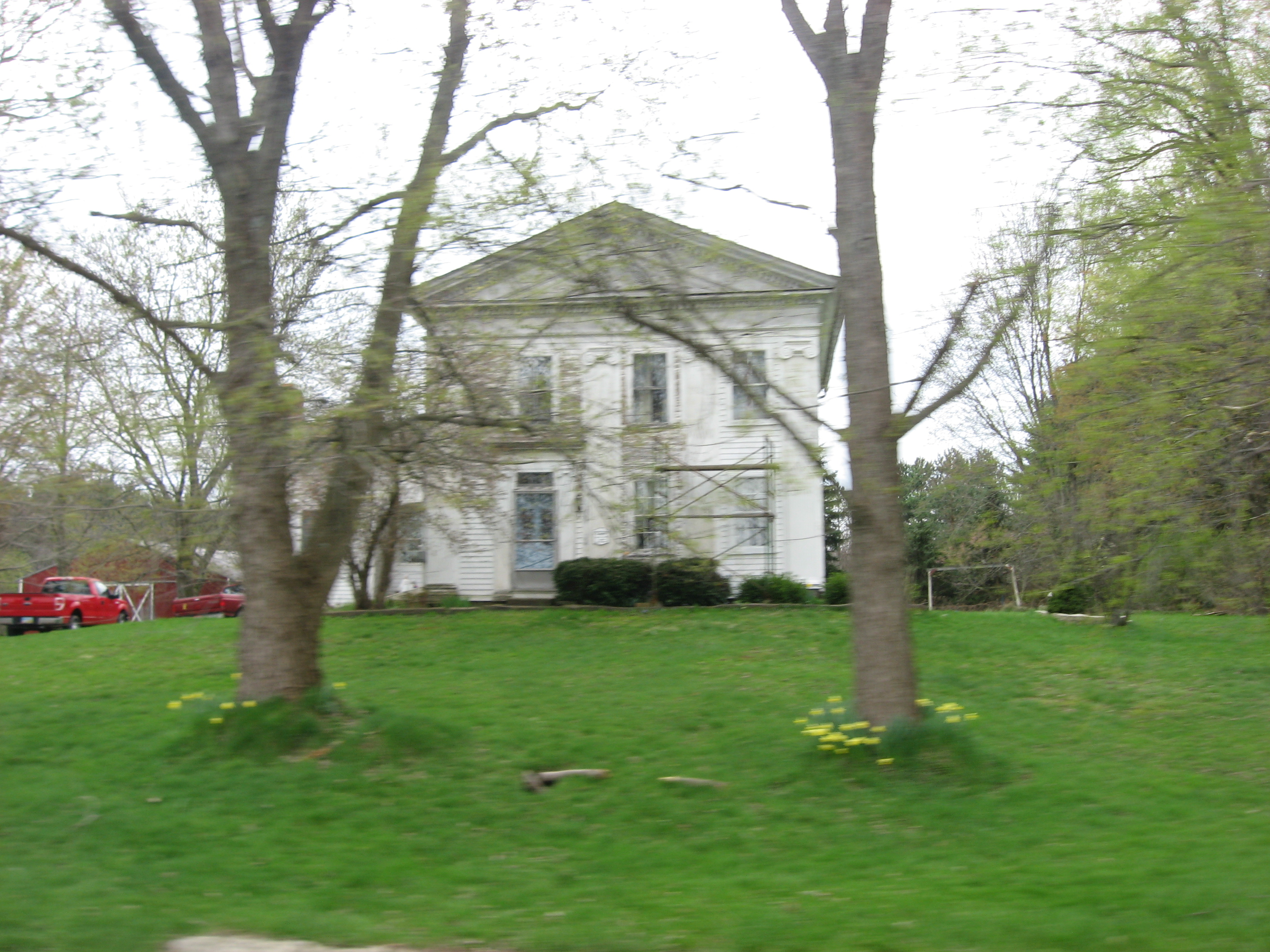 Front of the Lot Hathaway House, located at 12236 Old State Road (State Route 608) north of East Claridon in Claridon Township, Geauga County, Ohio, United States. Built in 1828 with a Greek Revival exterior and Adam style interior, it is listed on the National Register of Historic Places.